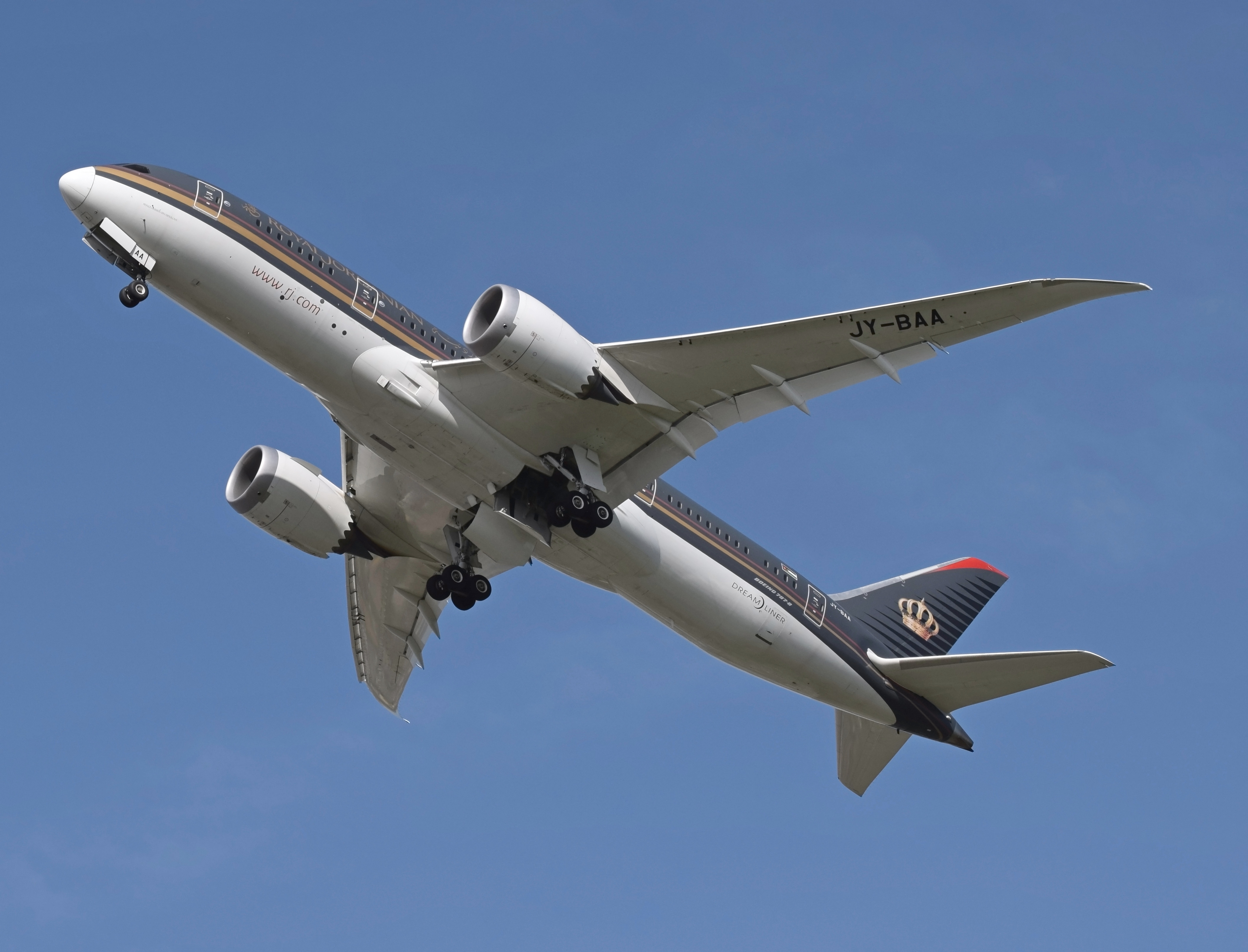 Royal Jordanian Airlines Boeing 787-8 (JY-BAA) arrives London Heathrow Airport, England.